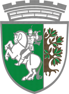 This is the edited and enhanced transparent version of the Coat of arms of the Bulgarian city of Sliven. I got pissed off, because the current version was really bad and I decided to make it better on my own.